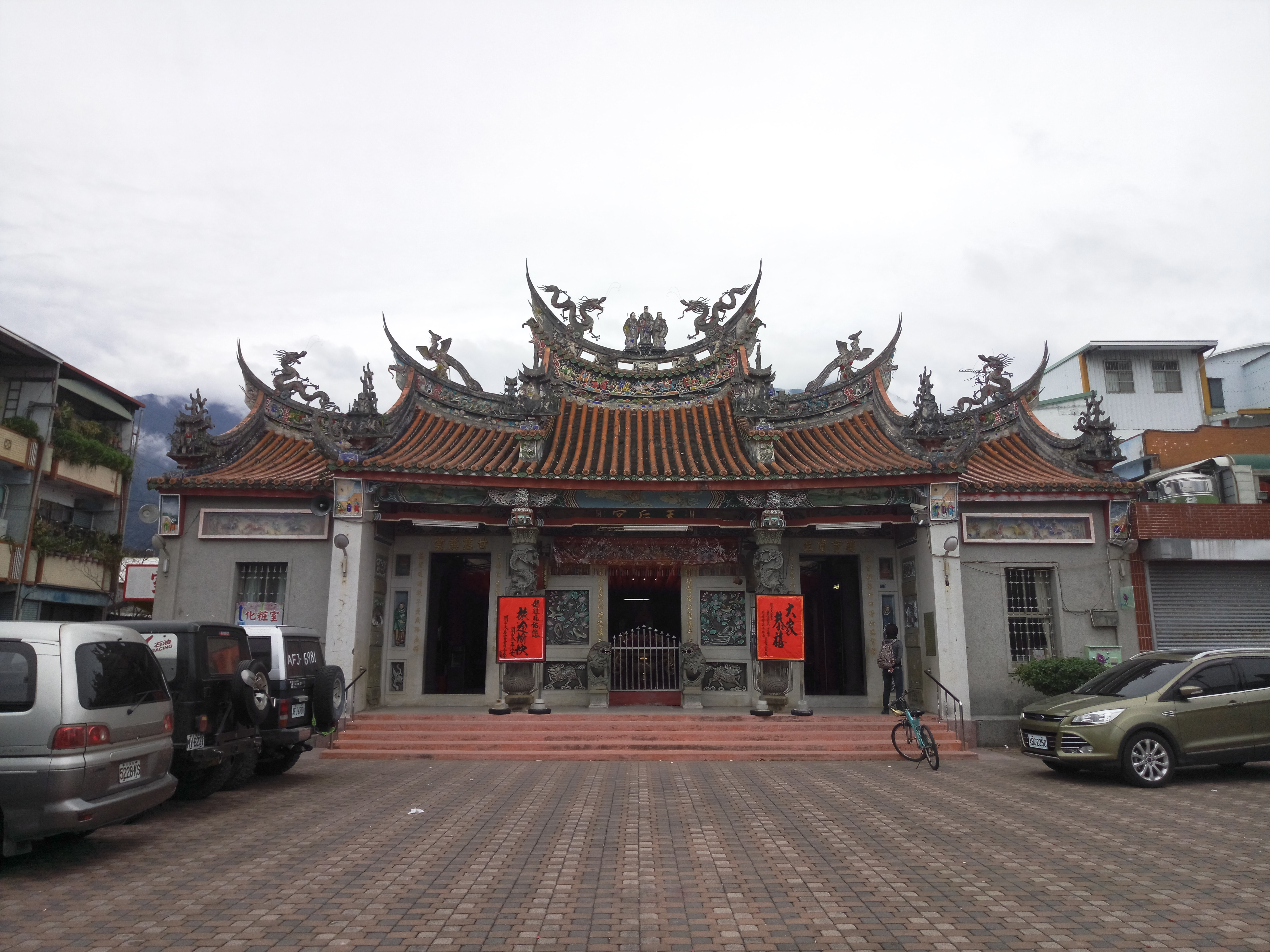 Guanshan Mazu temples